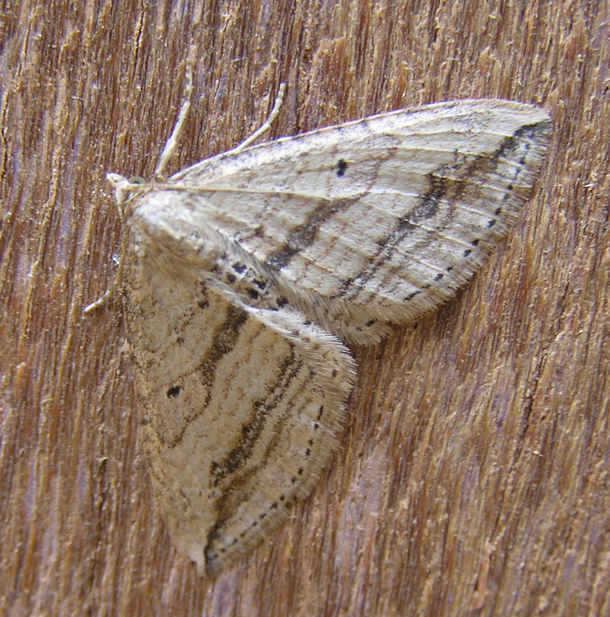 Orthonama vittata (Katlijk, the Netherlands)